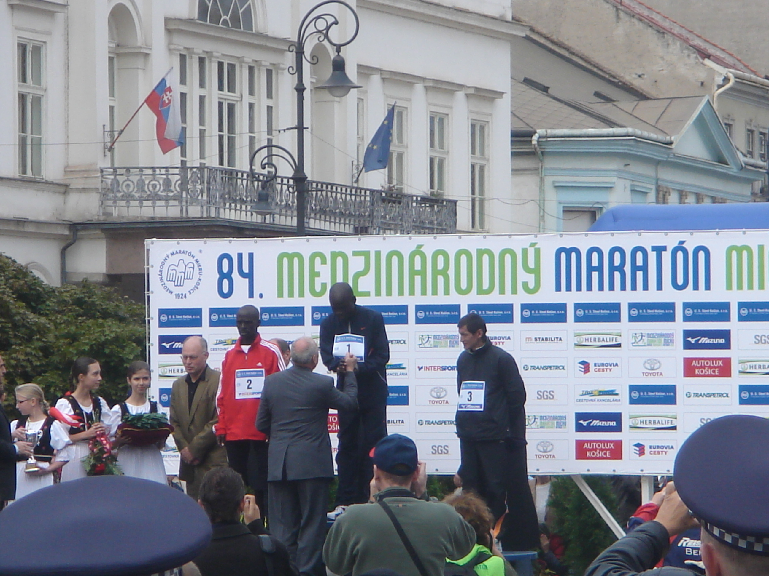 84th International Peace Marathon in Kosice, Slovakia